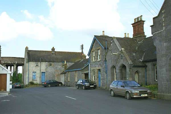 picture taken by User:Josephbrophy on July 9 1998 in Ballybrophy, Ireland and is placed in the public domain; and for use in wiki article on Brophy